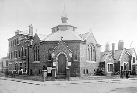 Photograph of the now demolished Rotunda in Aldershot in Hampshire